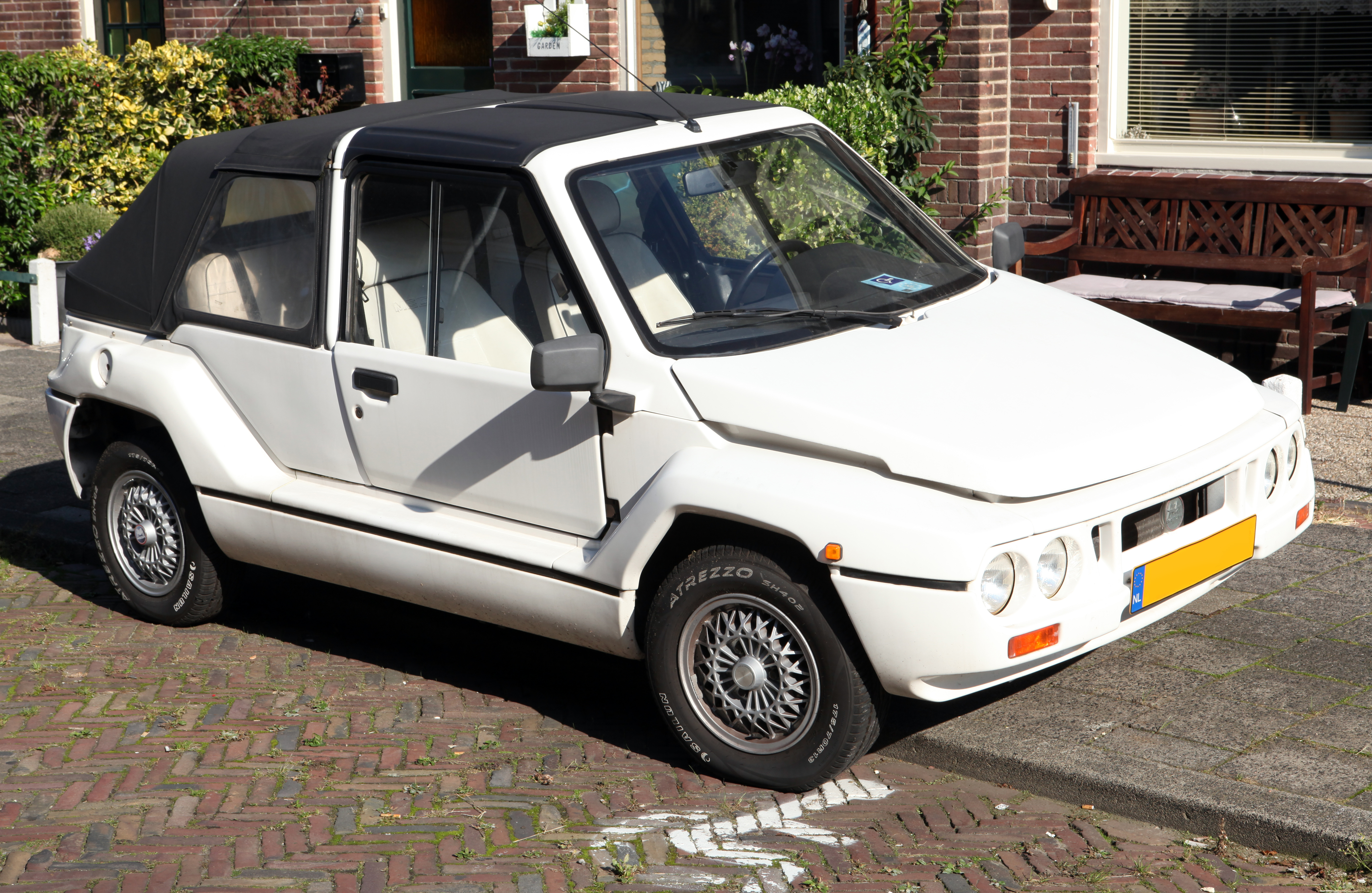 1996 Mega Cabriolet Tjaffer 1.1I Cabrio, Dutch market name for the Mega Club